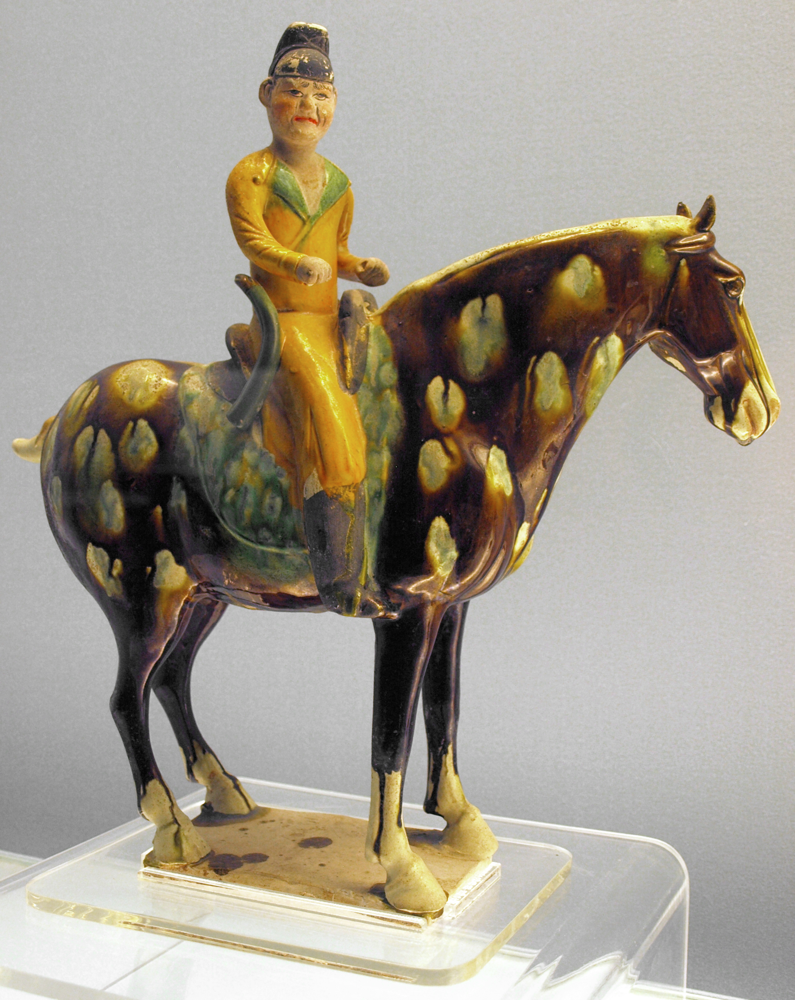 Polychrome glazed sancai pottery of an equestrian figure from the time of the Tang dynasty (618-907 AD). On display at the Shanghai Museum.